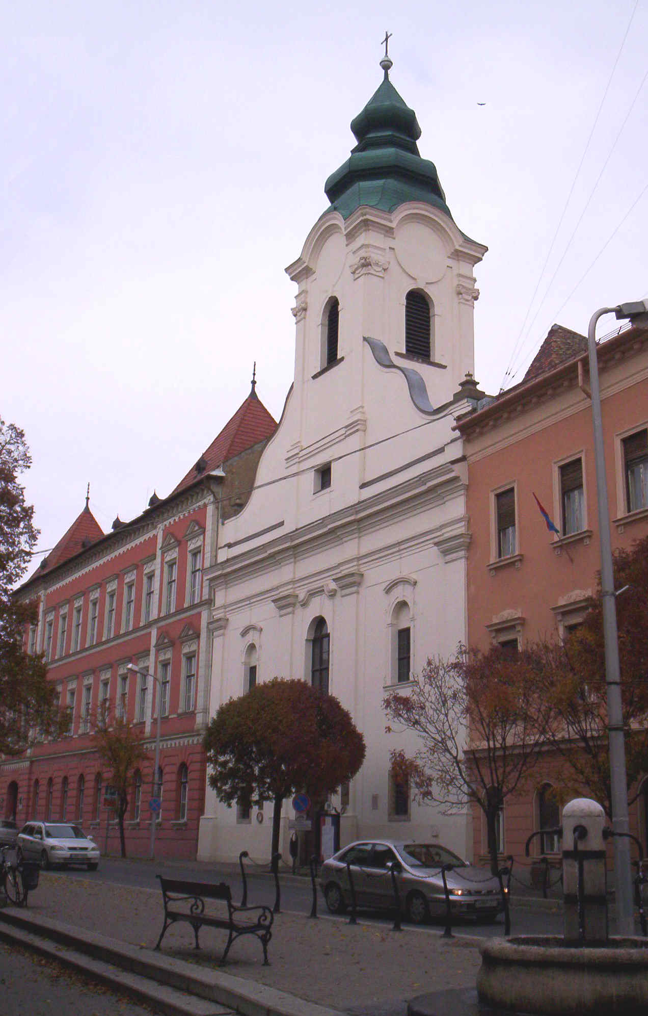 The Benedictine (formerly Pauline) Church in Pápa, Hungary.